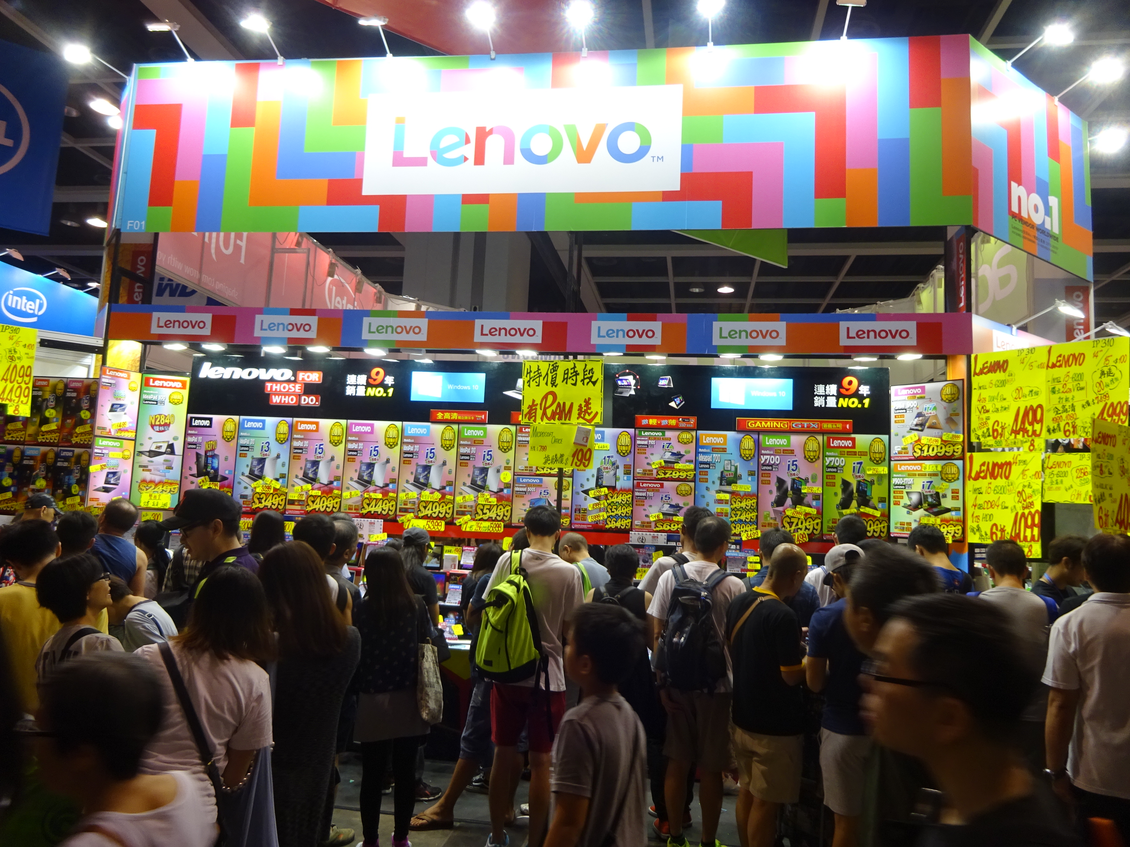 HKCEC HKCCF 香港電腦通訊節 exhibition booth LENOVO sign n visitors in Aug 2016